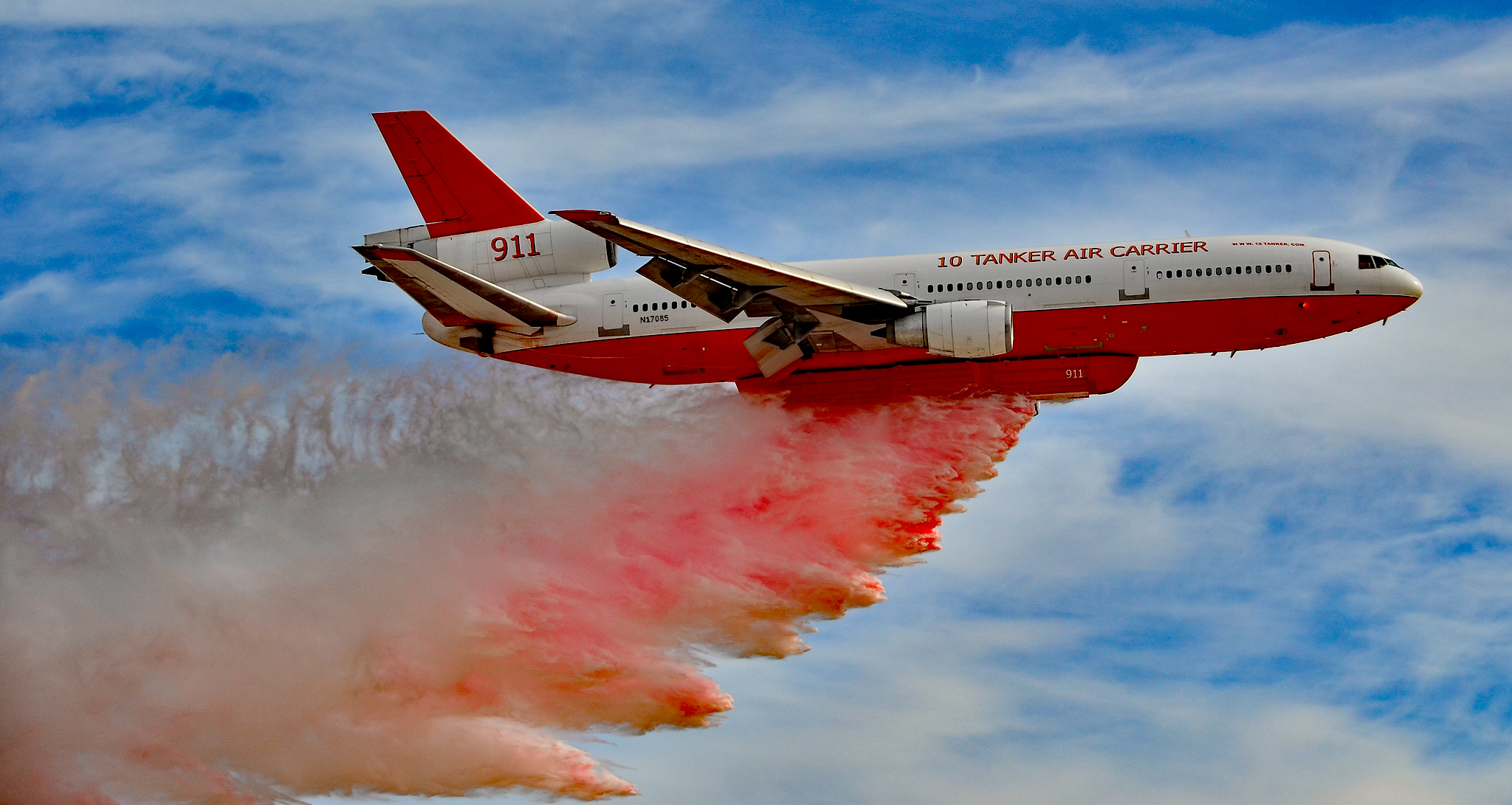 Las Vegas - Nellis AFB (LSV / KLSV) Aviation Nation 2016 Air Show USA - Nevada, November 12, 2016 Photo: TDelCoro